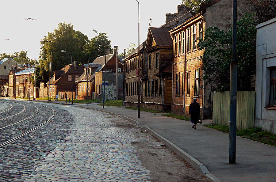 Maskavas Street - main axis of the district